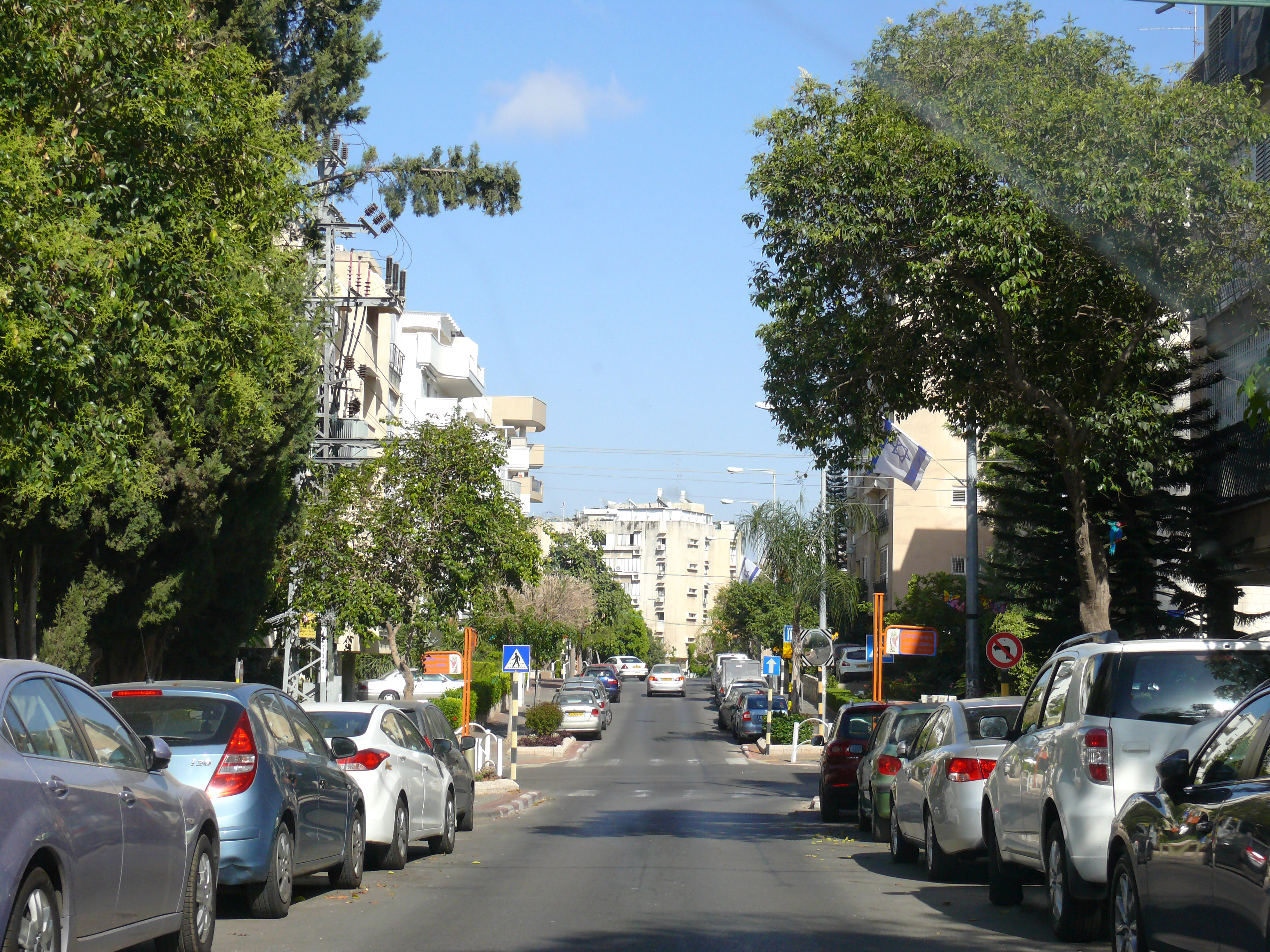 Avramovitch neighborhood, Rishon LeZion, Israel